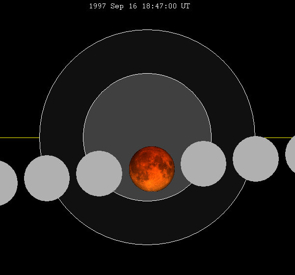 September 1997 lunar eclipse chart of moon's total lunar eclipse path through the earth's shadow. thumb